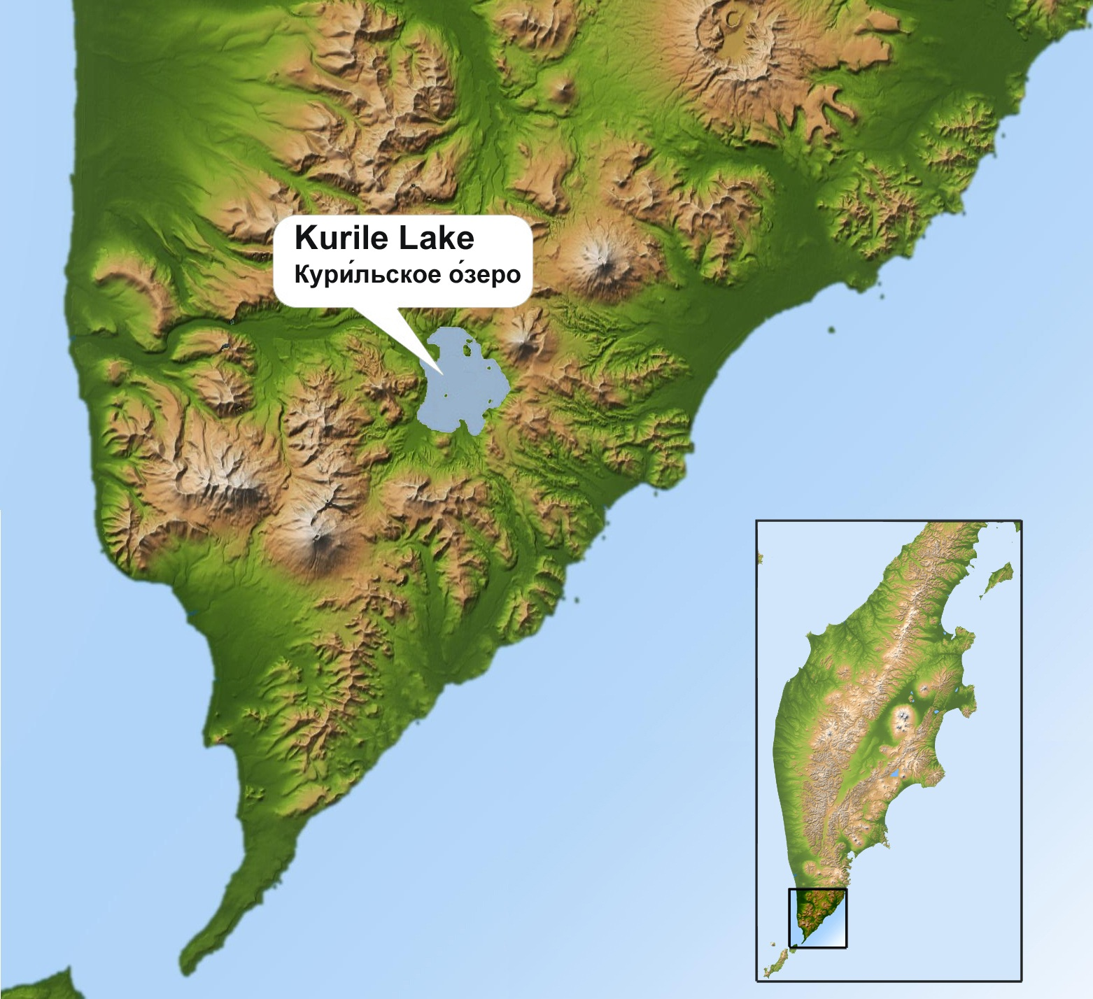 A sideways view of kamchatka.